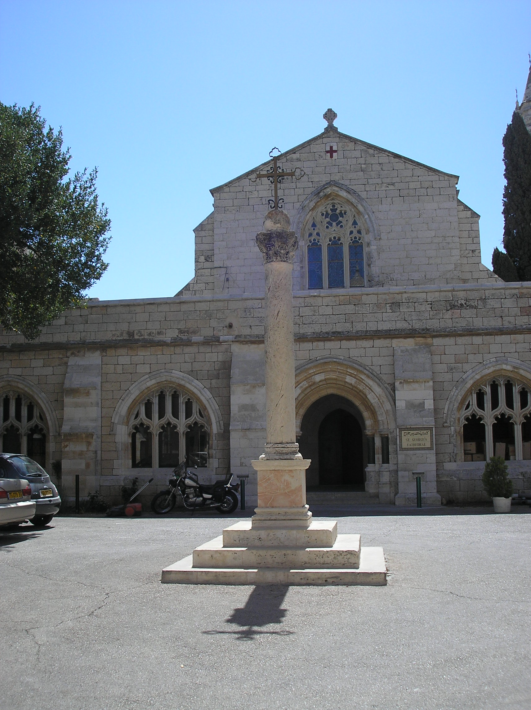 St. George's Cathedral